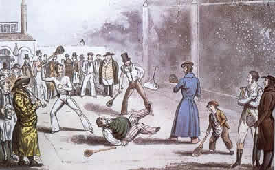 An early game of Rackets being played at a prison - from where it developed.